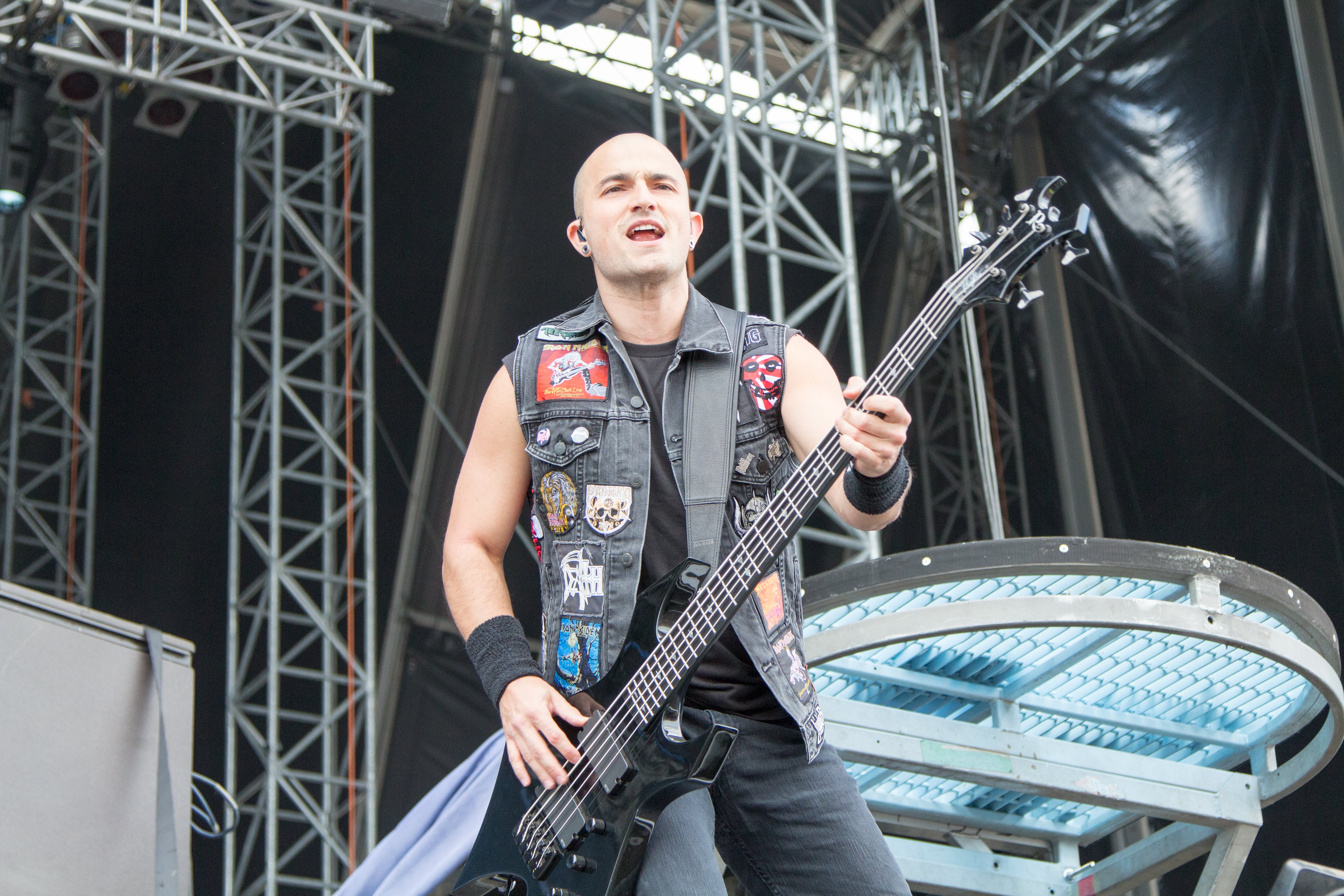 Paolo Gregoletto from Trivium at Nova Rock 2014